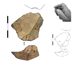 Pseudo-Levallois Point made on silified mudstone. Arlanpe D level